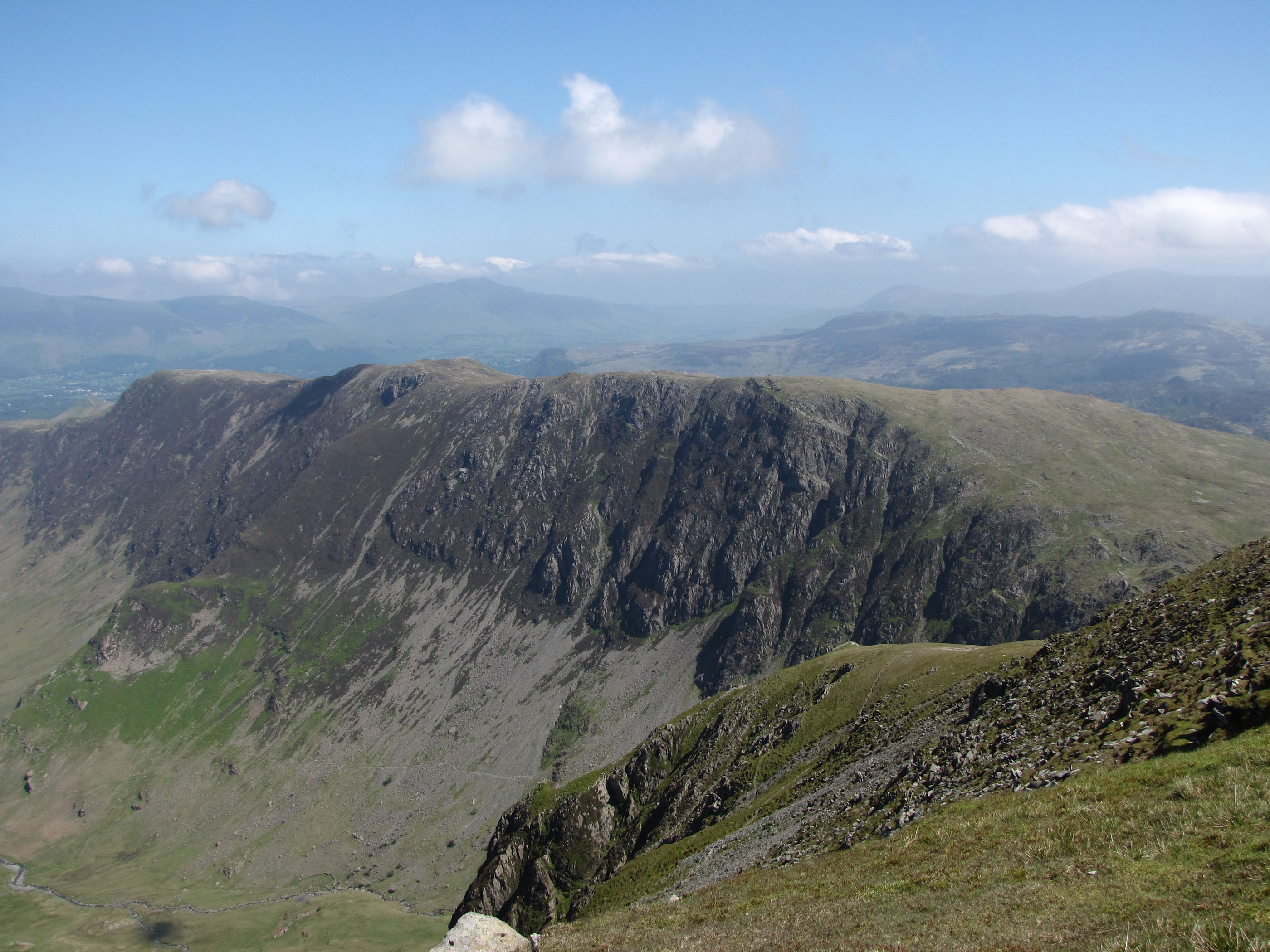 The fell High Spy seen from the adjacent hill of Dale Head.